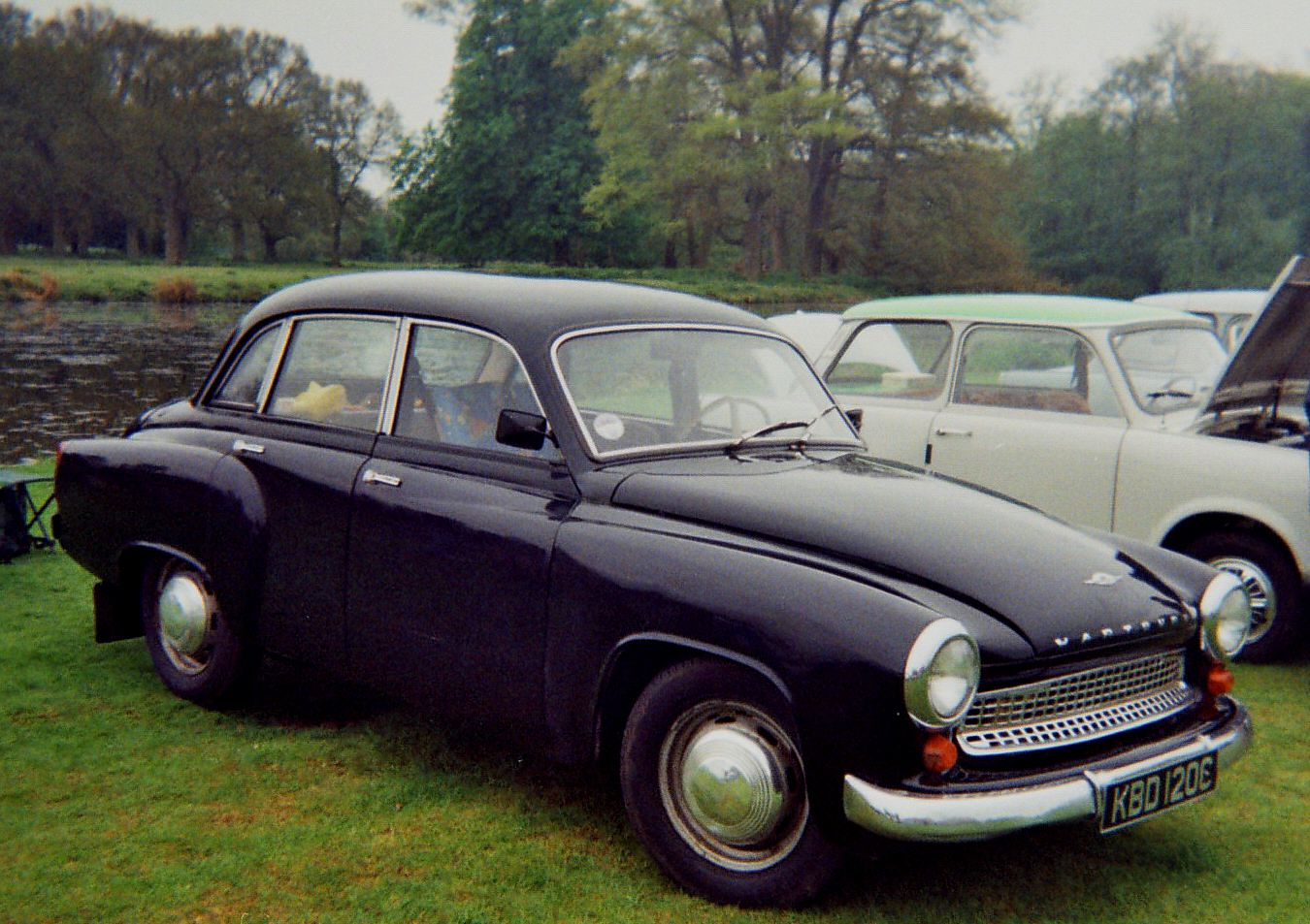 1965 Wartburg 311 (991cc) at Stanford Hall. Photo by